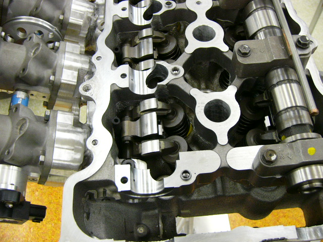 The cylinder head for NISSAN SR20VE (with 4-throttle valves).